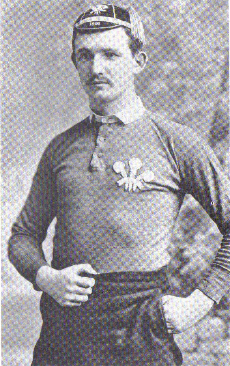 William McCutcheon, Wales international rugby union player, circa 1895